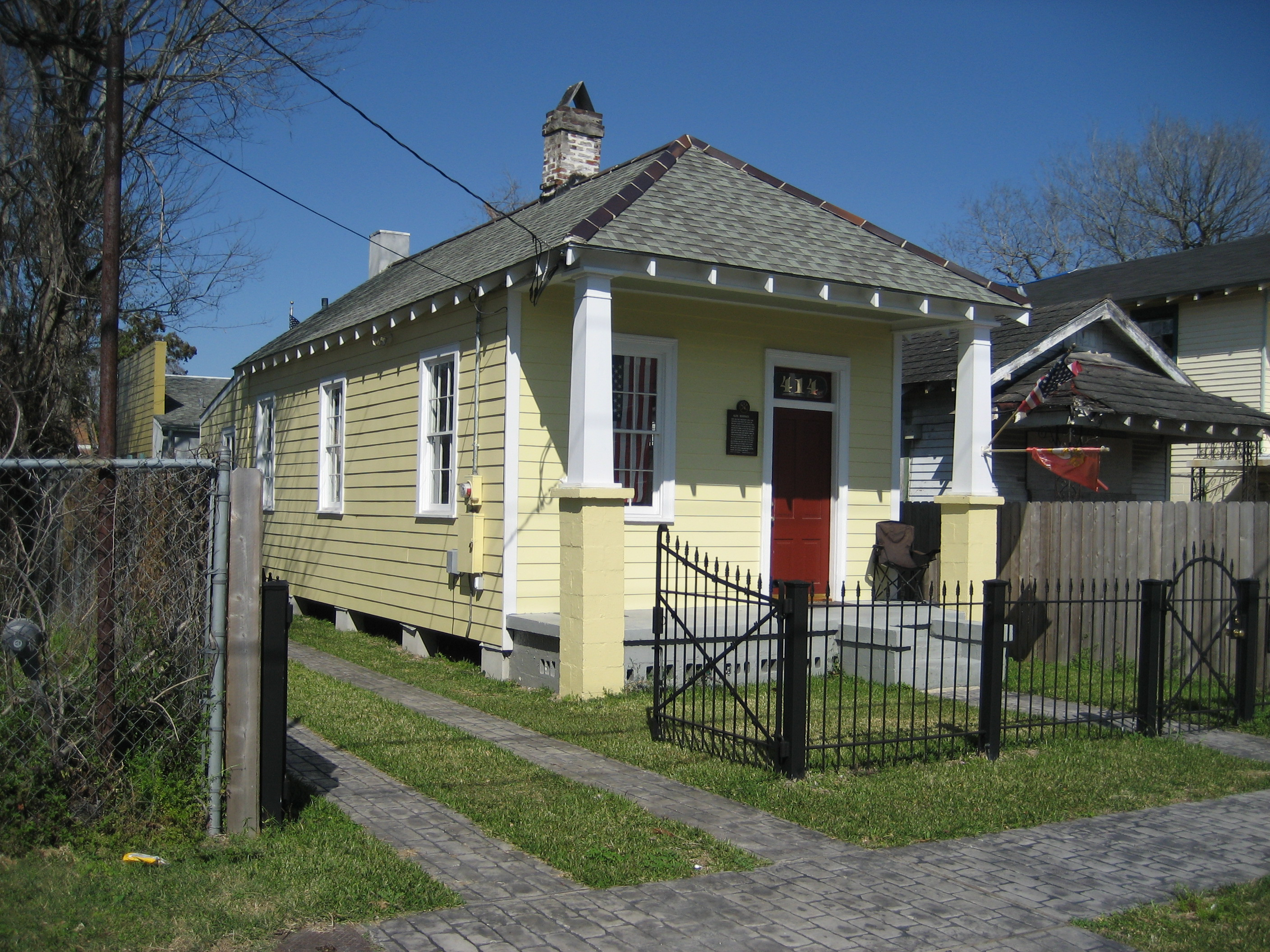 Algiers section of New Orleans, Louisiana. Former residence of Henry Allen Sr and Red Allen.